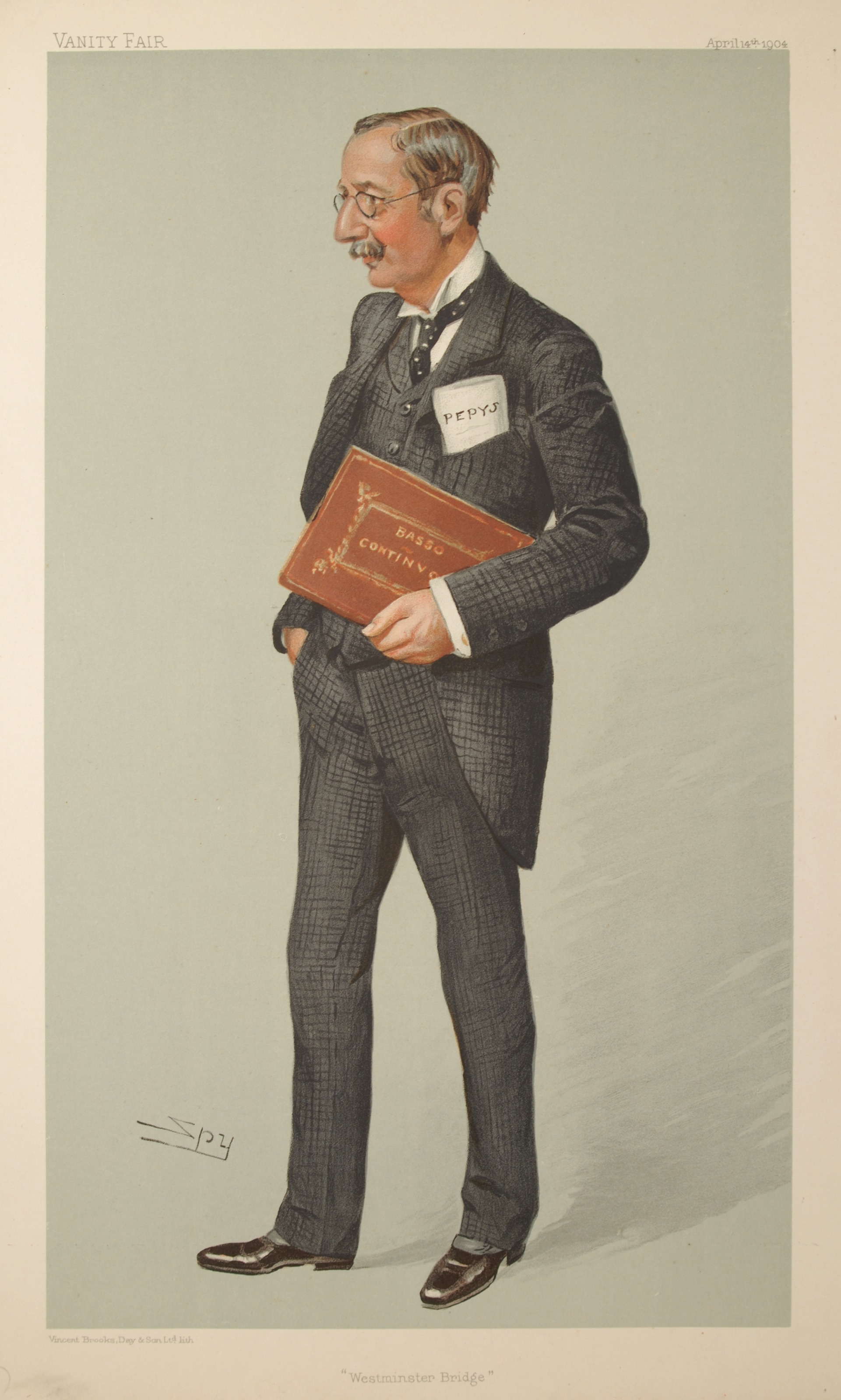 Men of the Day No. 913: Caricature of Sir John Frederick Bridge, M.V.O. (1844-1924). Caption read "Westminster Bridge".